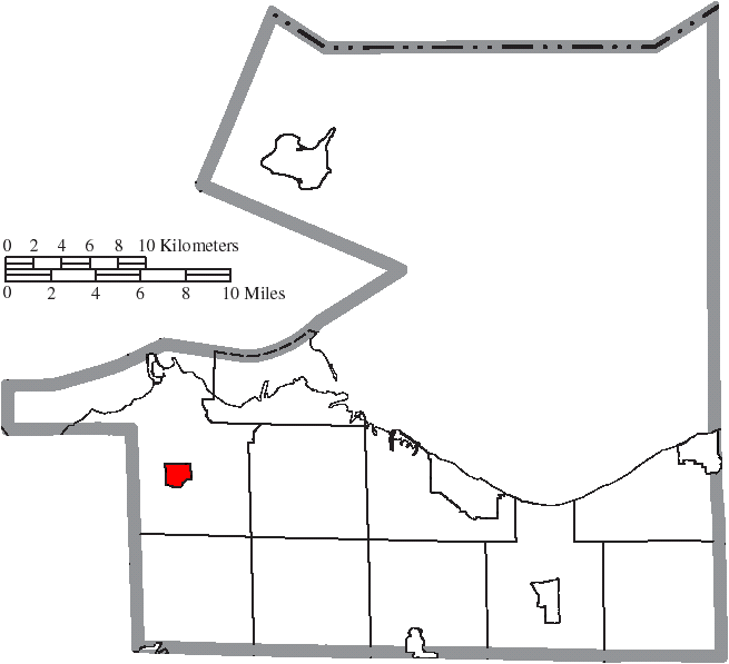 Map of the municipal and township boundaries of Erie County, Ohio, United States, as of the 2000 census, with the location of the village of Castalia highlighted. Township borders are shown only in unincorporated areas in order to differentiate incorporated and unincorporated areas more clearly.